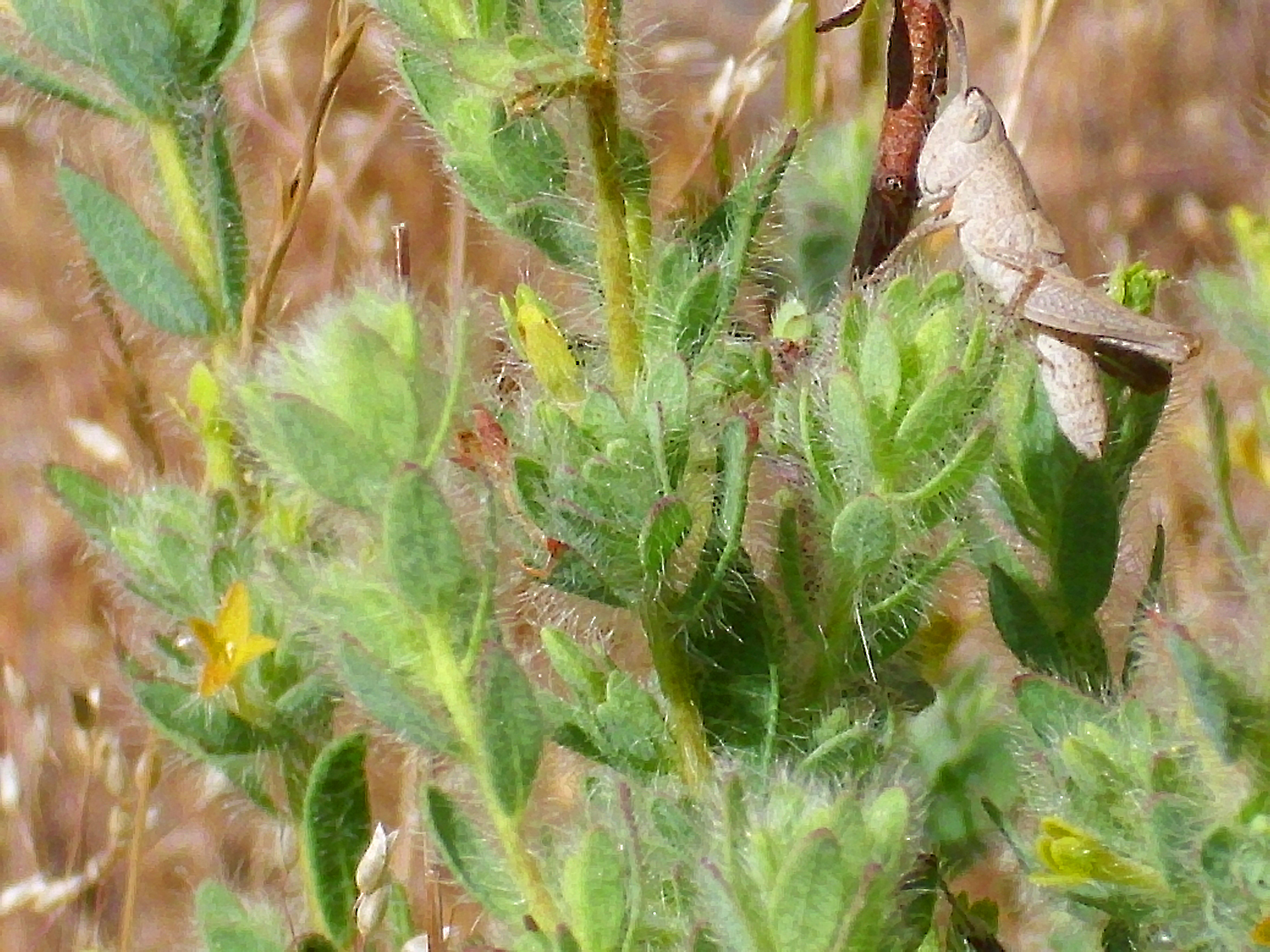 Thymelaea villosa close up, Sierra Madrona, Spain